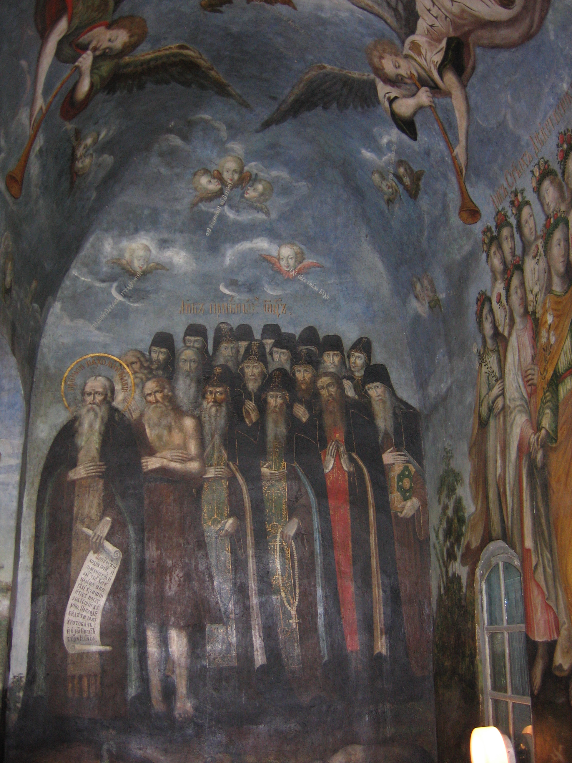 Kiev Pechersk Lavra (Kiev, Ukraine)